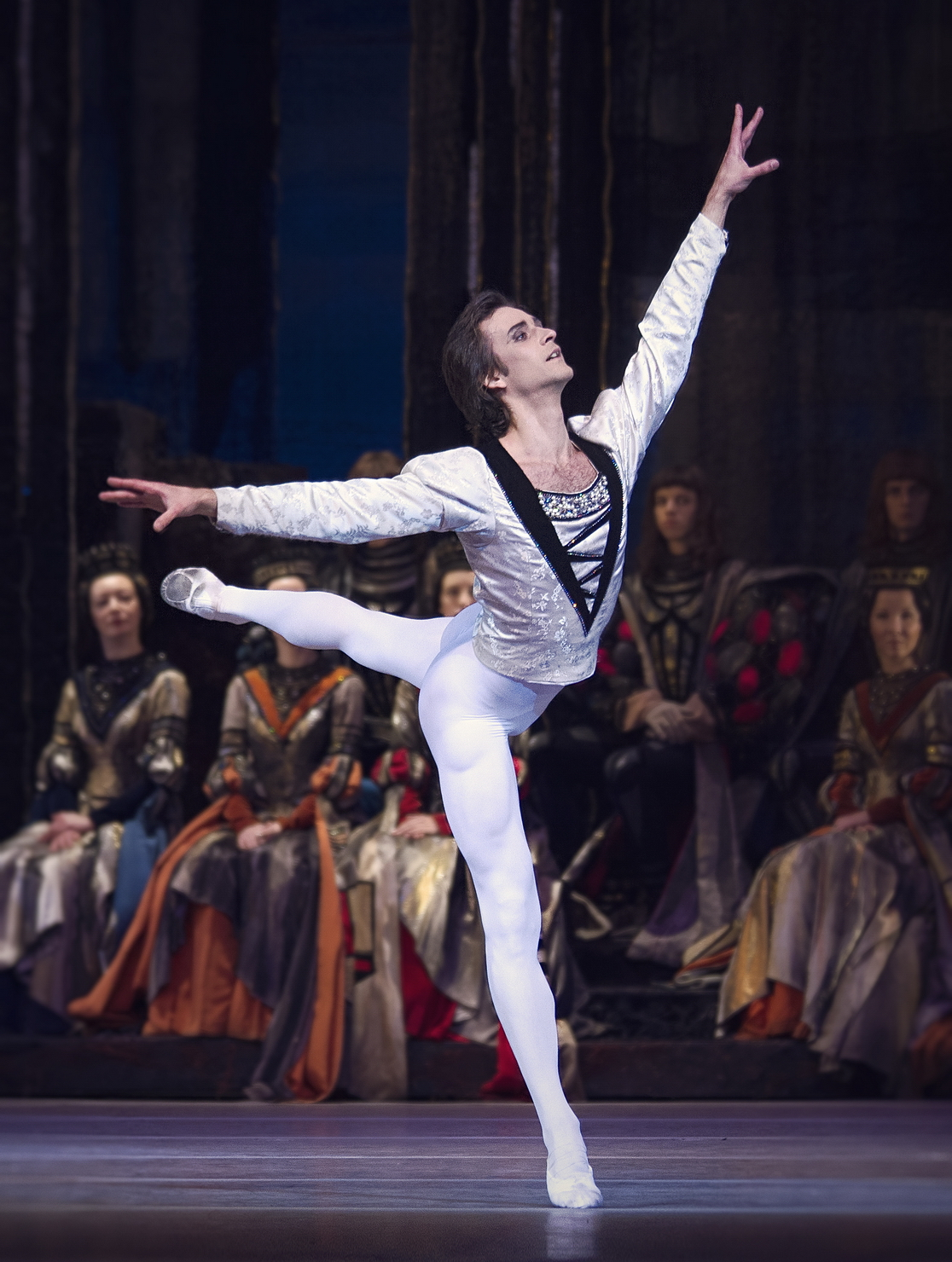 Ruslan Skvortsov as a prince Siegfried. Swan Lake. The Bolshoi theater